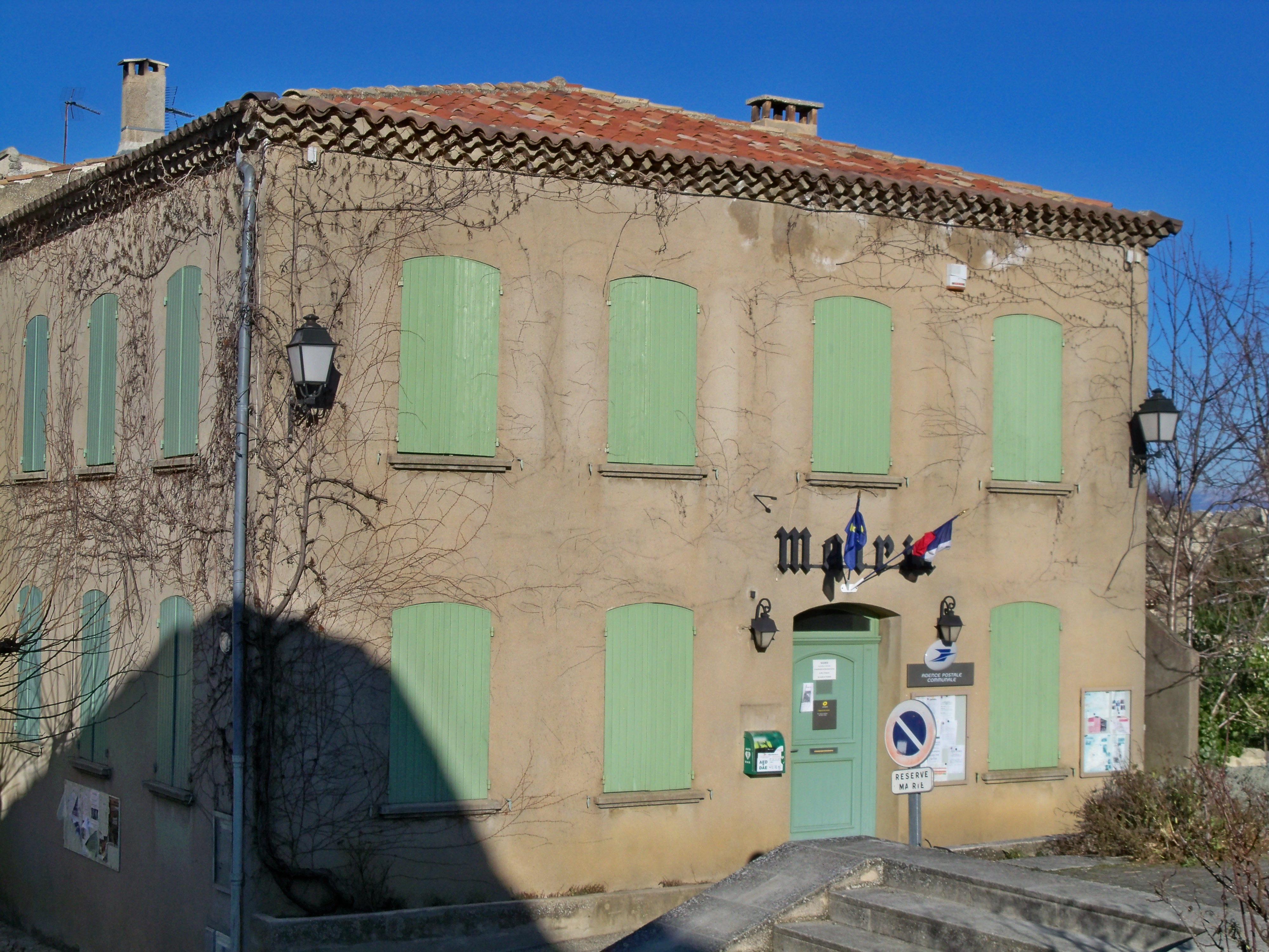 town hall of Saignon, Vaucluse, France